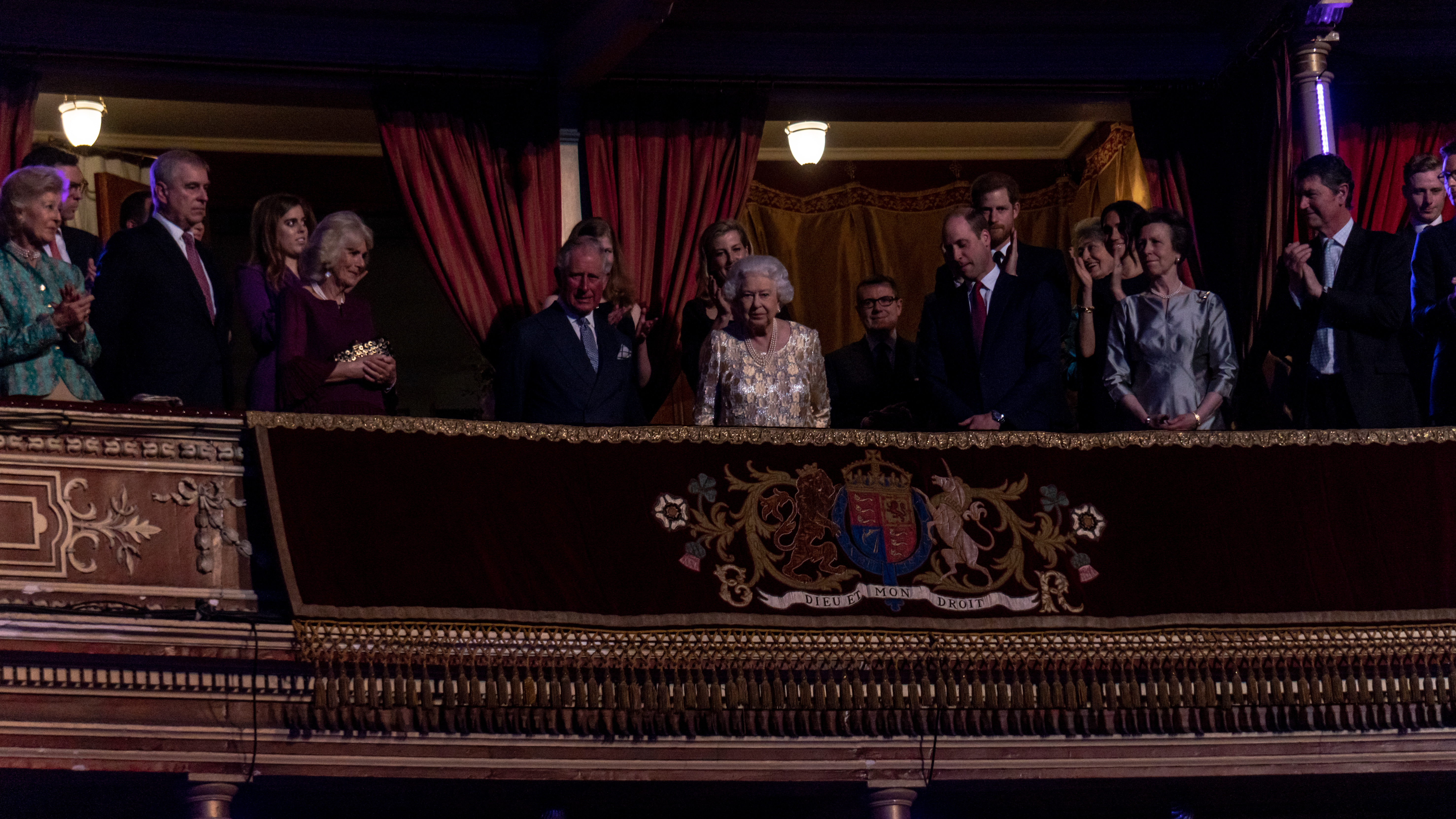 English royal family at the queen's 92nd birthday party